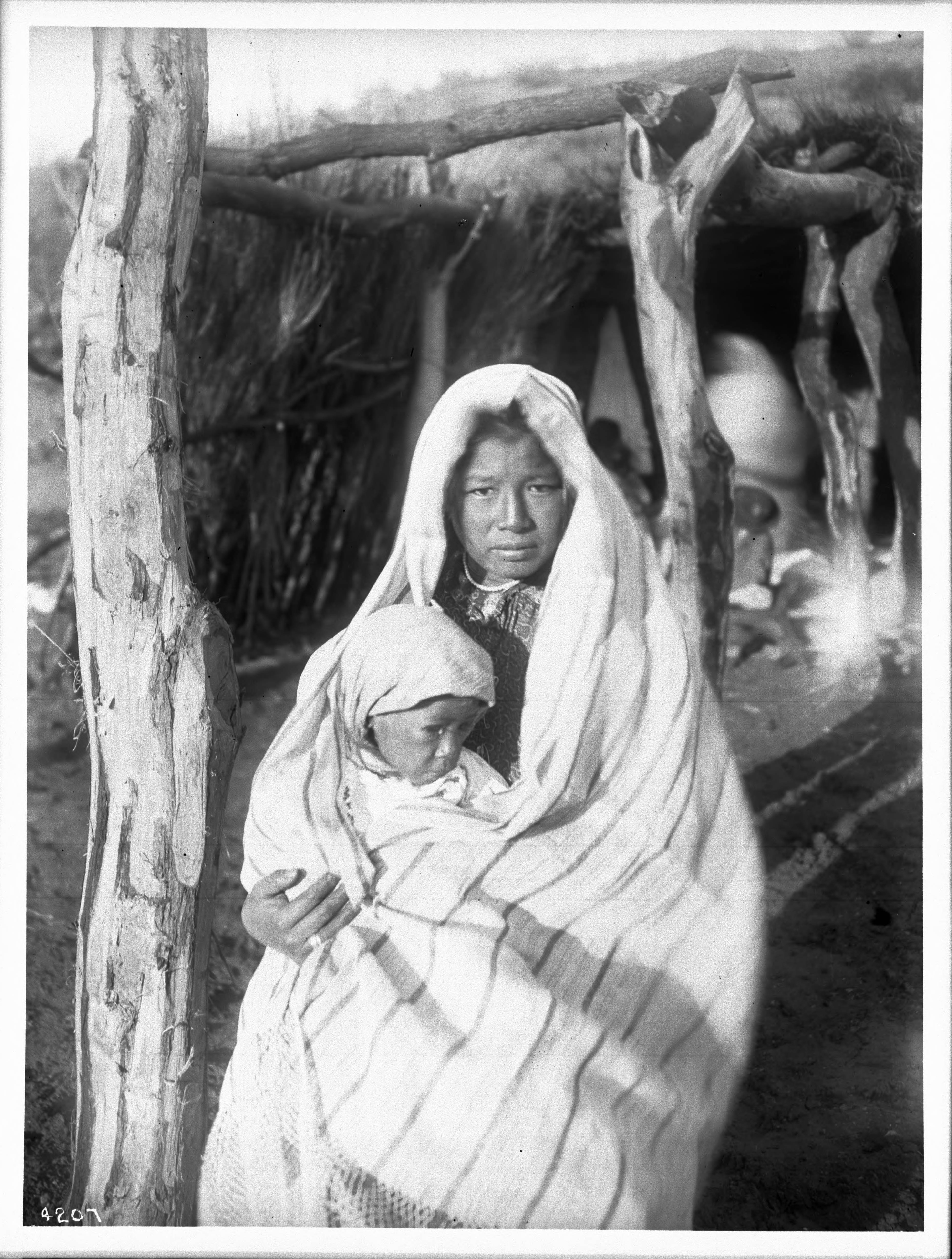 A Yaqui Indian mother holding a baby, Arizona, ca.1910 Photograph of a Yaqui Indian mother holding a baby, Arizona, ca.1910. She is wrapped in a striped blanket. She is standing near a rough timber post which supports part of the roof of a thatched dwelling (visible behind her). Another person is sitting on the ground in the background. Call number: CHS-4207 Photographer: James, George Wharton Filename: CHS-4207 Coverage date: circa 1910 Part of collection: California Historical Society Collection, 1860-1960 Format: glass plate negatives Type: images Part of subcollection: Title Insurance and Trust, and C.C. Pierce Photography Collection, 1860-1960 Repository name: USC Libraries Special Collections Accession number: 4207 Microfiche number: 1-224- Archival file: chs_Volume96/CHS-4207.tiff Repository address: Doheny Memorial Library, Los Angeles, CA 90089-0189 Geographic subject (country): USA Format (aacr2): 2 photographs : glass photonegative, photoprint, b&w ; 22 x 17 cm. Rights: Digitally reproduced by the USC Digital Library; From the California Historical Society Collection at the University of Southern California Subject (adlf): tribal areas Project: USC Repository Contributing entity: California Historical Society Date created: circa 1910 Publisher (of the digital version): University of Southern California. Libraries Format (aat): photographic prints; photographs Geographic subject (state): Arizona Legacy record ID: chs-m16696; USC-1-1-1-14132 Access conditions: Send requests to address or e-mail given. Phone (213) 821-2366; fax (213) 740-2343. Subject (file heading): Mexico -- Indians -- Yaquis Subject (lcsh): Indians of North America; Yaqui Indians; Women; Children